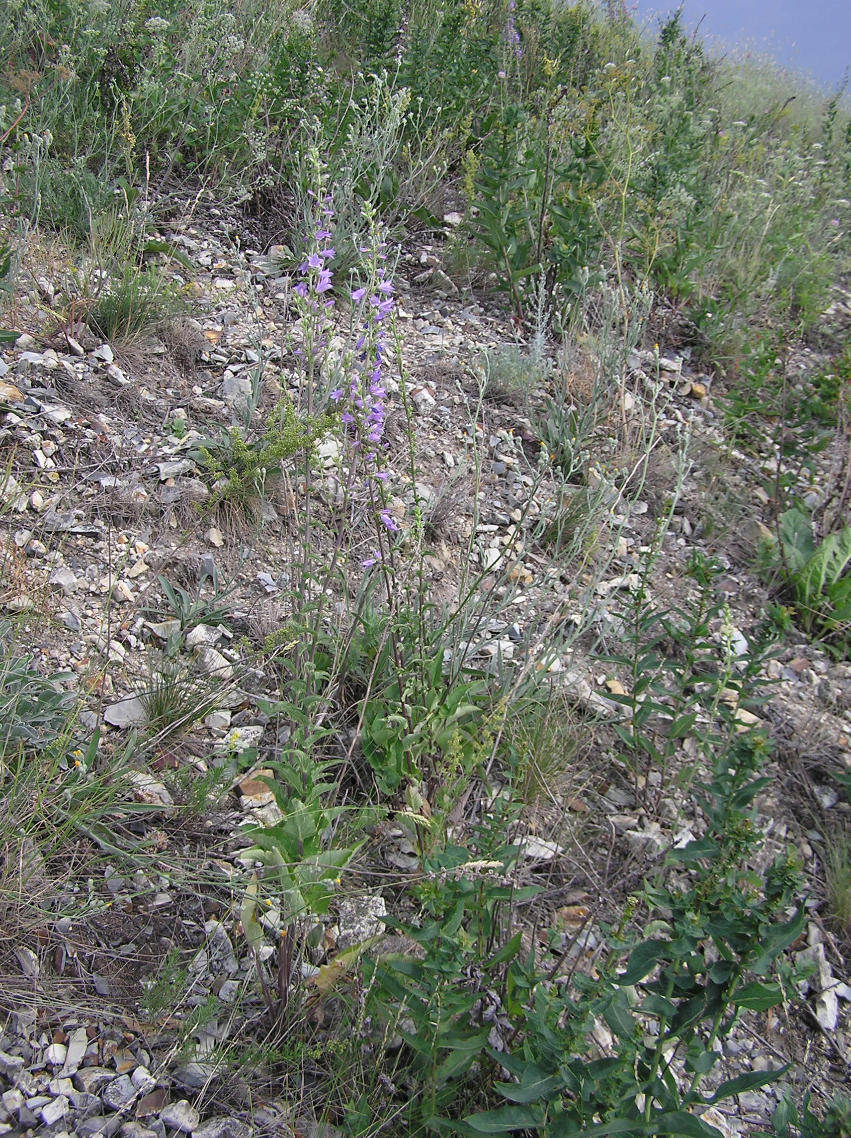 Campanula bononiensis L., habitus. Habitat: south-eastern rocky slope. Vicinity of Saratov city, Russia.